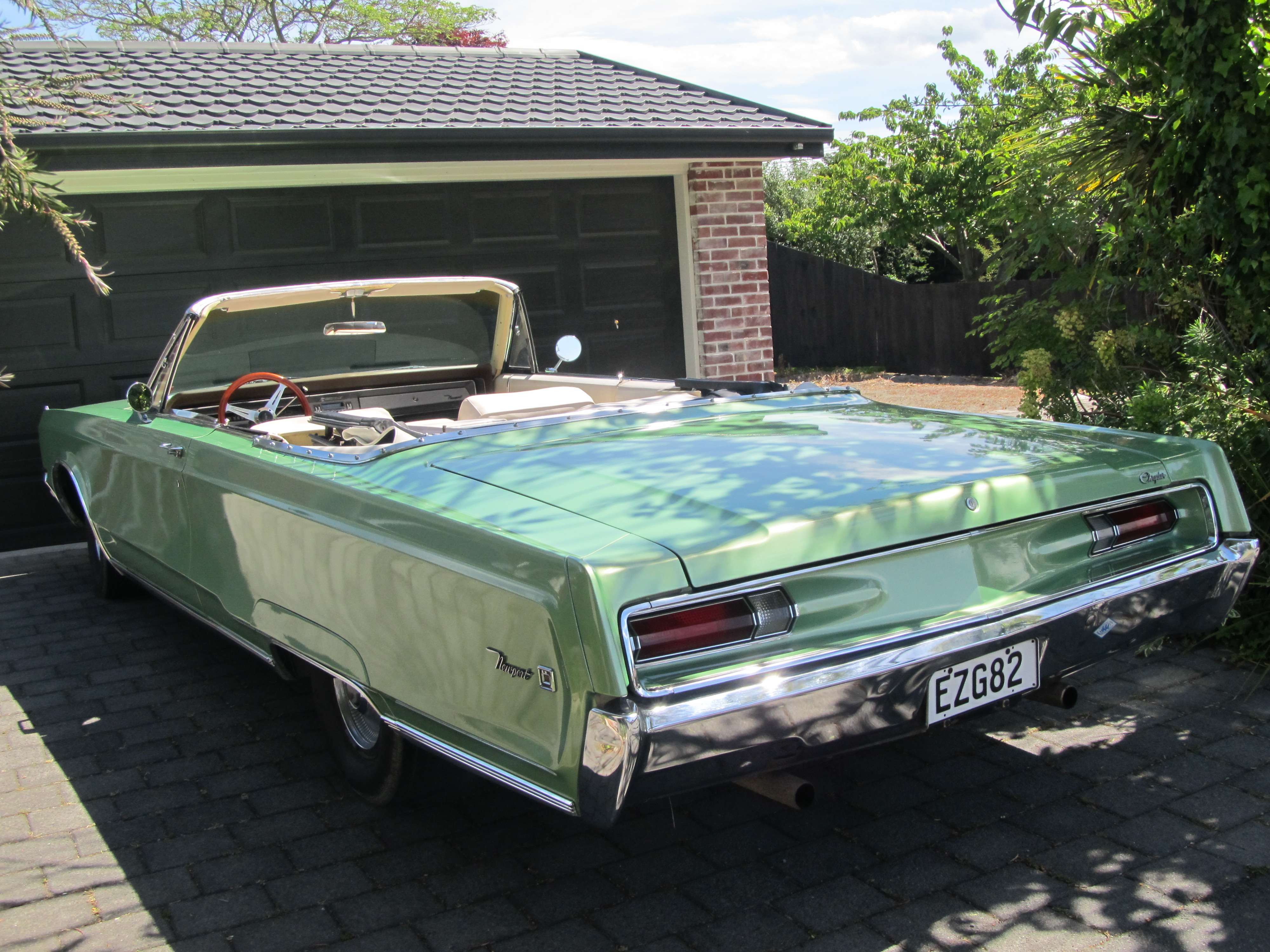 EZG82 This was absolutely MASSIVE! I was surprised it fitted in the driveway, which wasn't that long... I often wonder how people manage to live with these, as you would need to have a fairly long garage and a large bank account, for the fuel economy... I must say, this looks smart in this shade of green... Another spot near my nana's new house - she is very lucky to live in this area, full of interesting cars... Not that she understands the old car/Flickr disease...